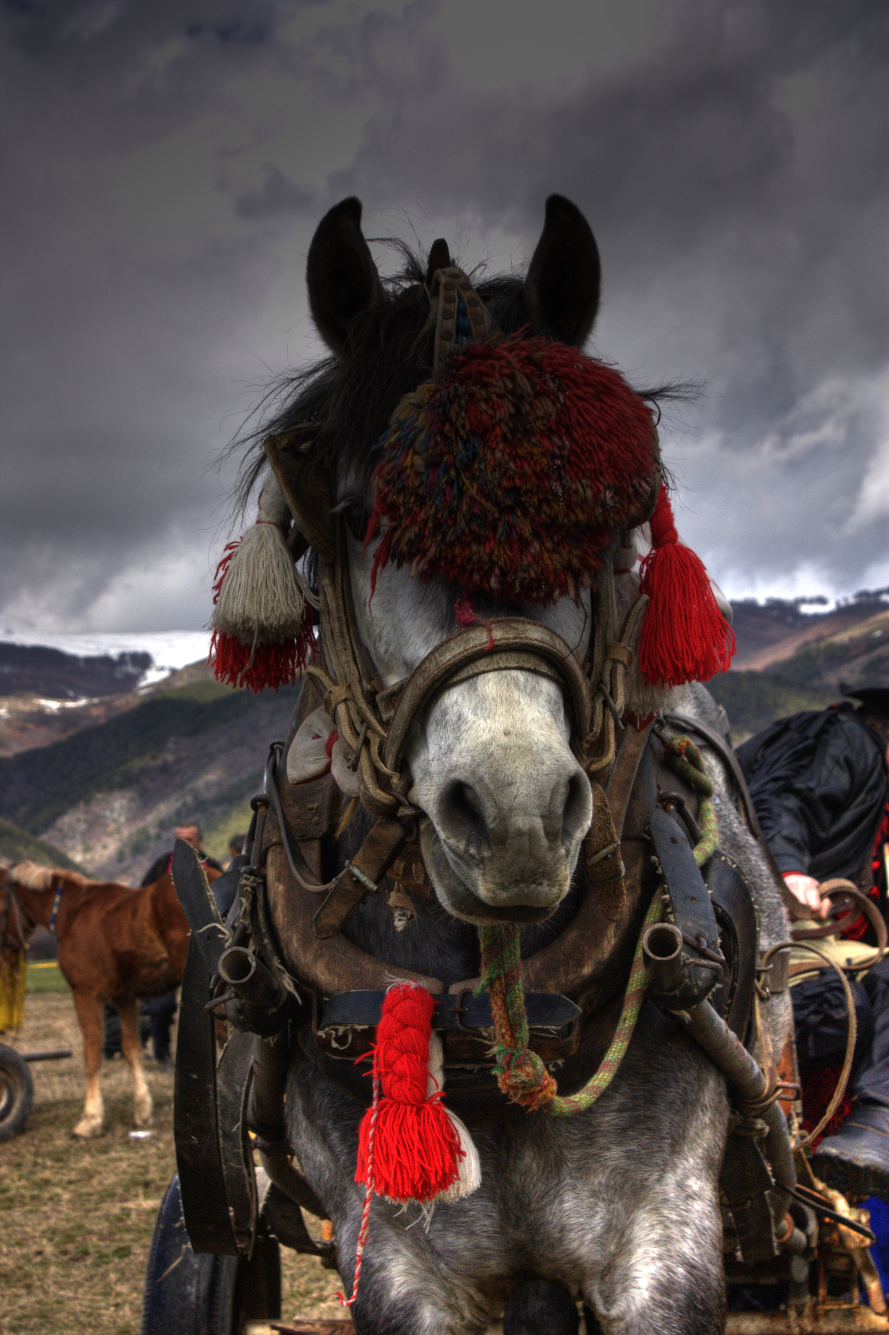 Photo from the Event with Horses that was organised by the Bulgarian village Chelopech for the Todorovden (St. Theodore's day) or otherwise known as Konski Velikden (The Easter of the Horses). Easter of the Horses "The Easter of the Horses" at Chelopech VAGABOND - Bulgaria's English monthly magazine: The photo of the month Reached #290 in Explore...